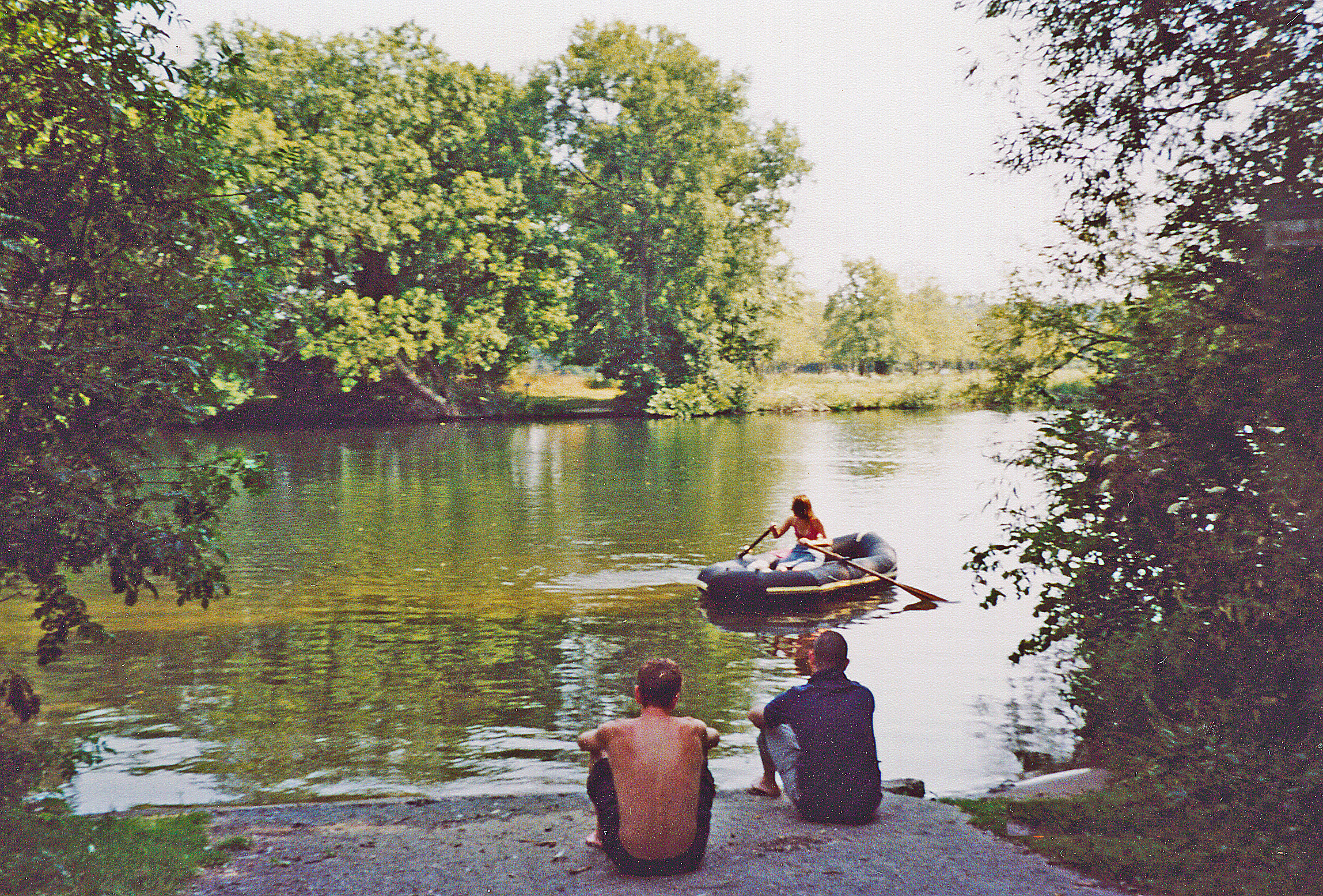 River Thames at Medmenham, 2003. View southward upstream at the site of a former ferry - on one of the hottest days of the century.